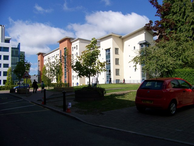 Dundee University